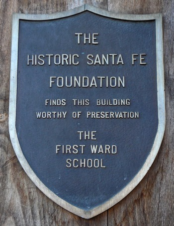 Many of the properties listed on the Foundation's Register of Resources Worthy of Preservation display this distinctive bronze plaque.